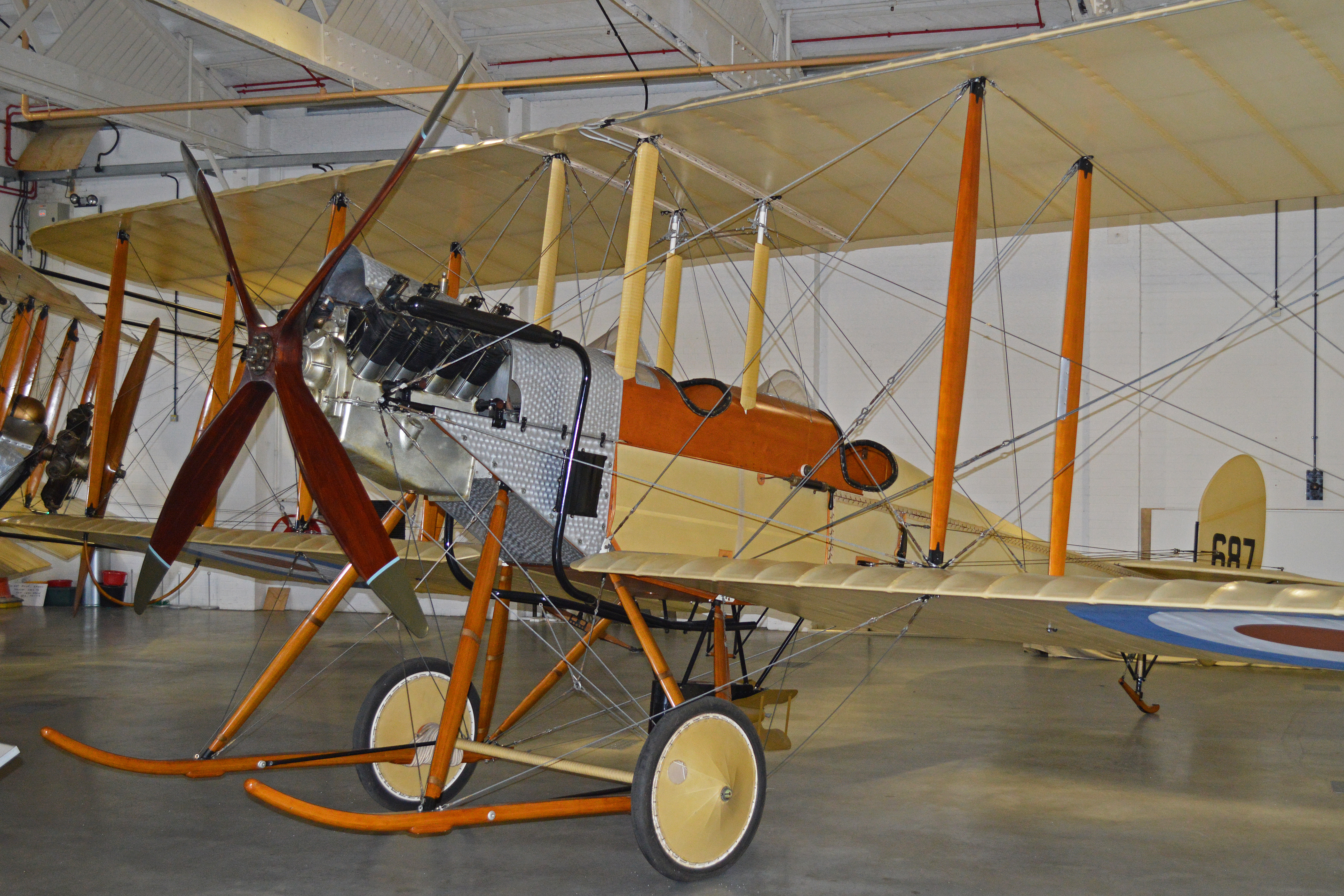 This replica was built at the RAF Museum workshops over a number of years. It originally appeared on display as a stripped fuselage in a workshop diorama when the museum openned in 1972. Replaced in the diorama by the fuselage of the Bleriot XXVII, the BE2 returned to the Cardington workshops and the remainder of the airframe was constructed. It returned to Hendon for display as a complete airframe in June 1992. On display in the Grahame-White Factory. RAF Museum, Hendon. 14-3-2013.